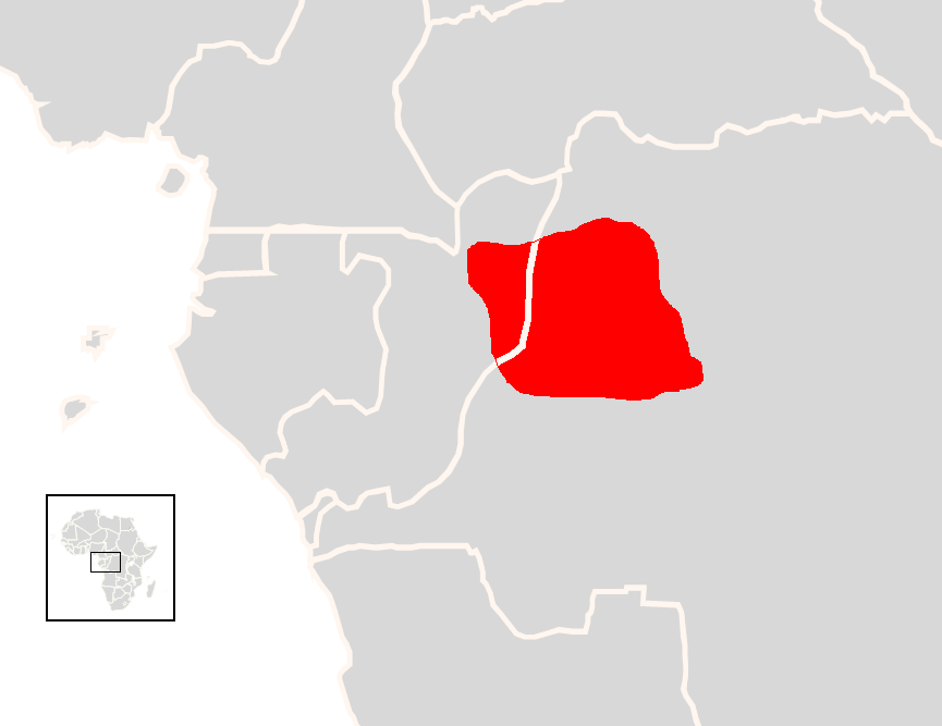 Allen's Swamp Monkey (Allenopithecus nigroviridis), range map, depending on the range map at IUCN red list